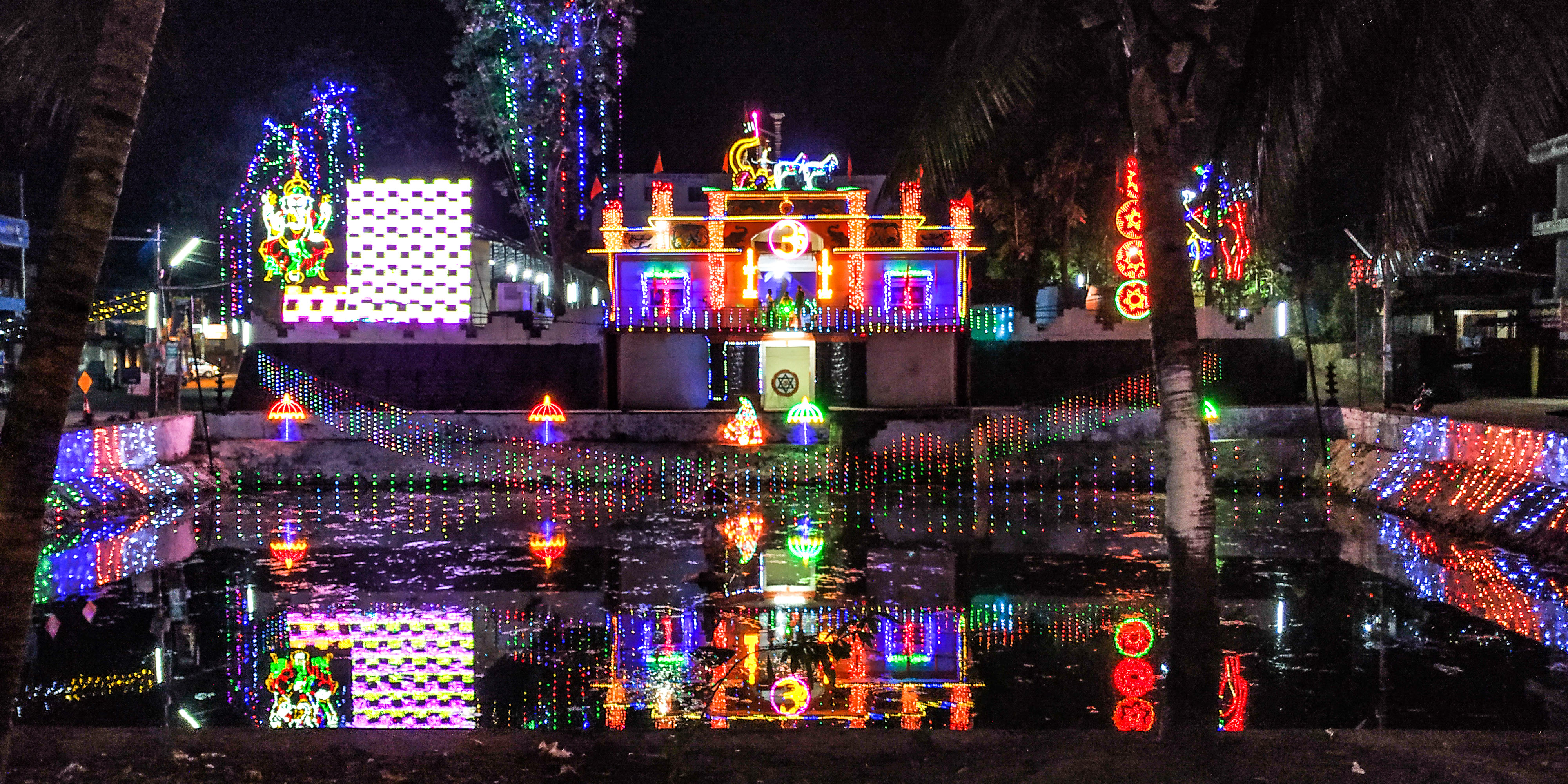 Festival at Parthasarathy Temple, Adoor